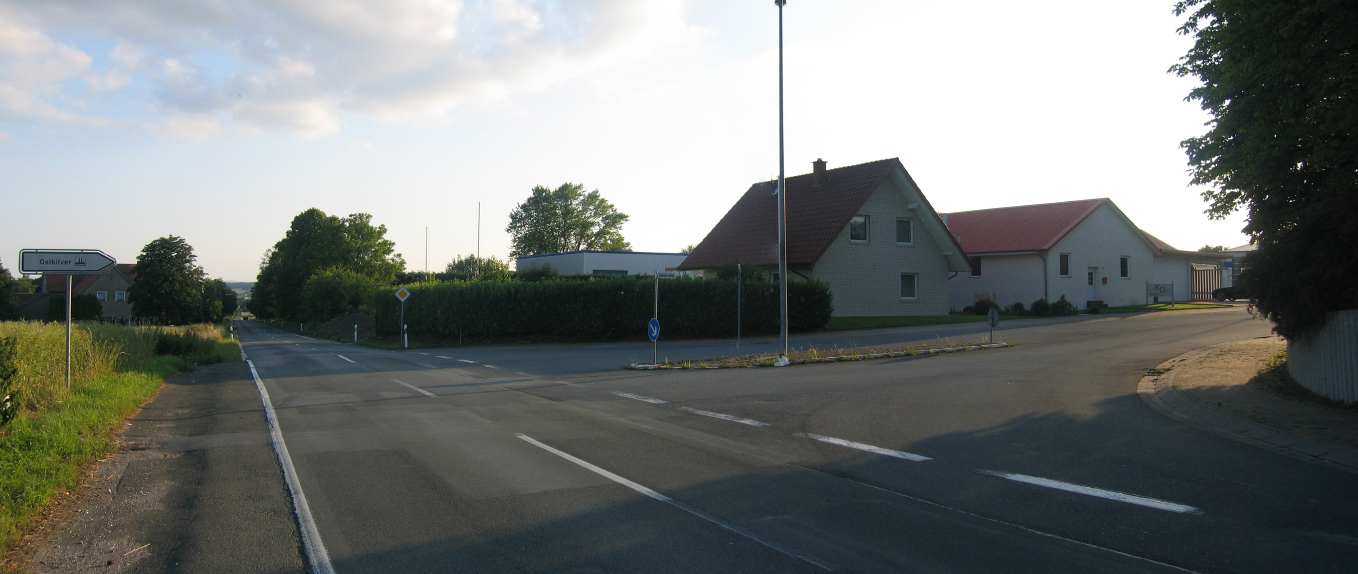 Indusstrial area, former Birdwood Barracks of Royal Army, in Rödinghausen, District of Herford, North Rhine-Westphalia, Germany.